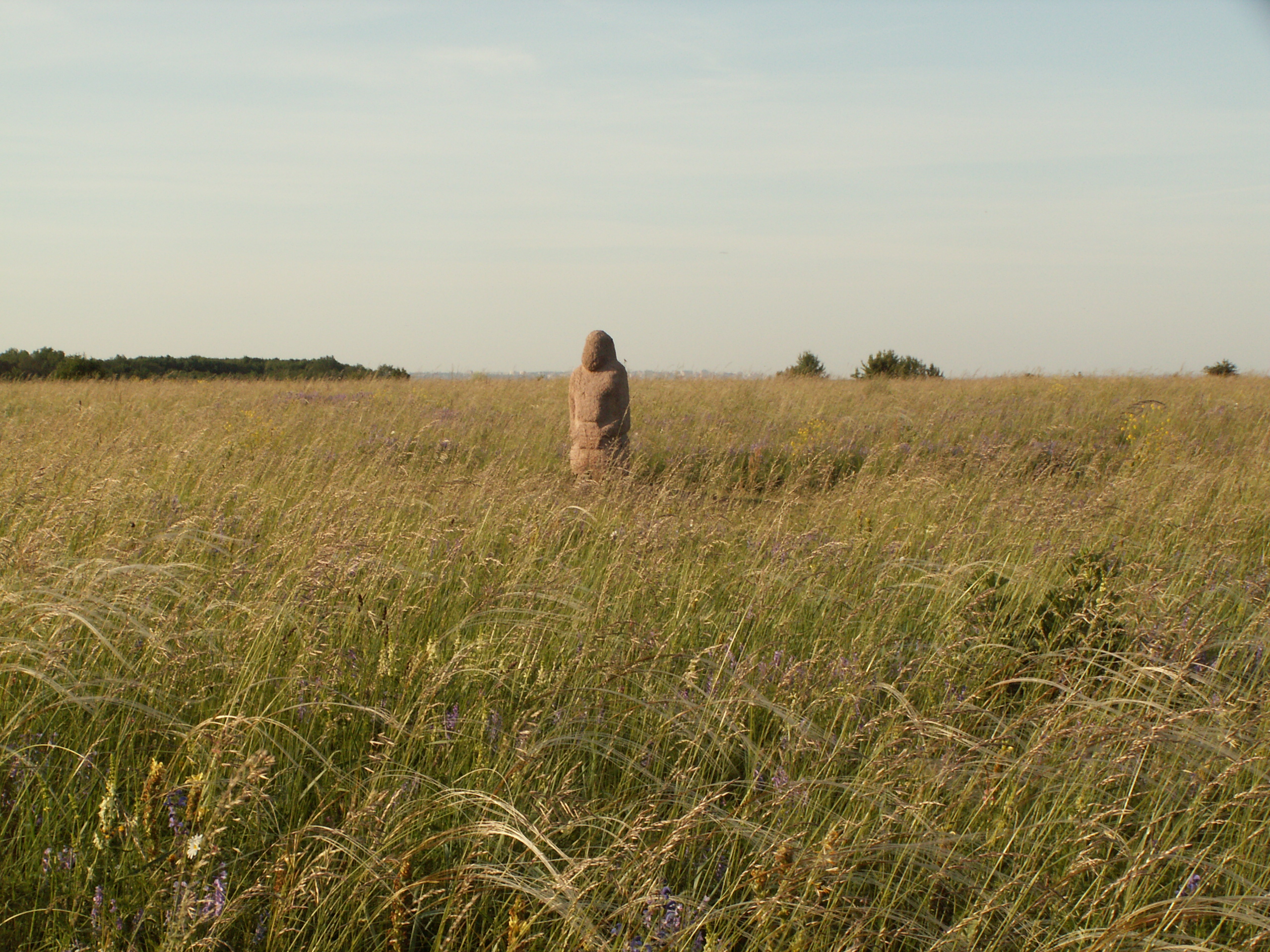 Streleckaya Step in the Centralny Tschernosemny Zapovednik, near Kursk, in the European part of Russia.